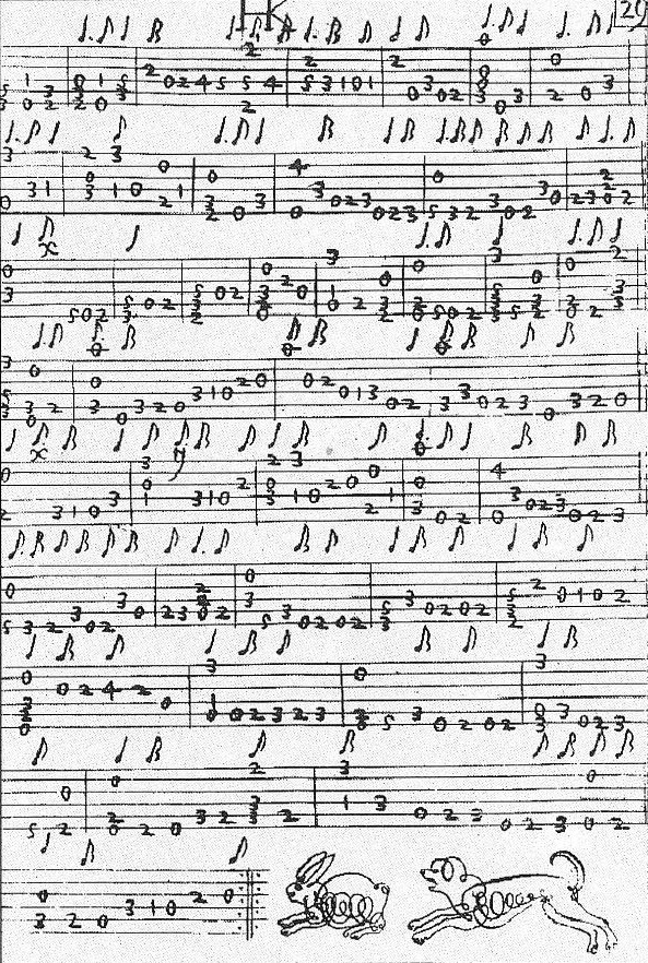 An extract from Correnti 7 from Johannes Hieronymus Kapsberger's Libro I d'Intavolatura di Lauto. Facsimile from the original manuscript.